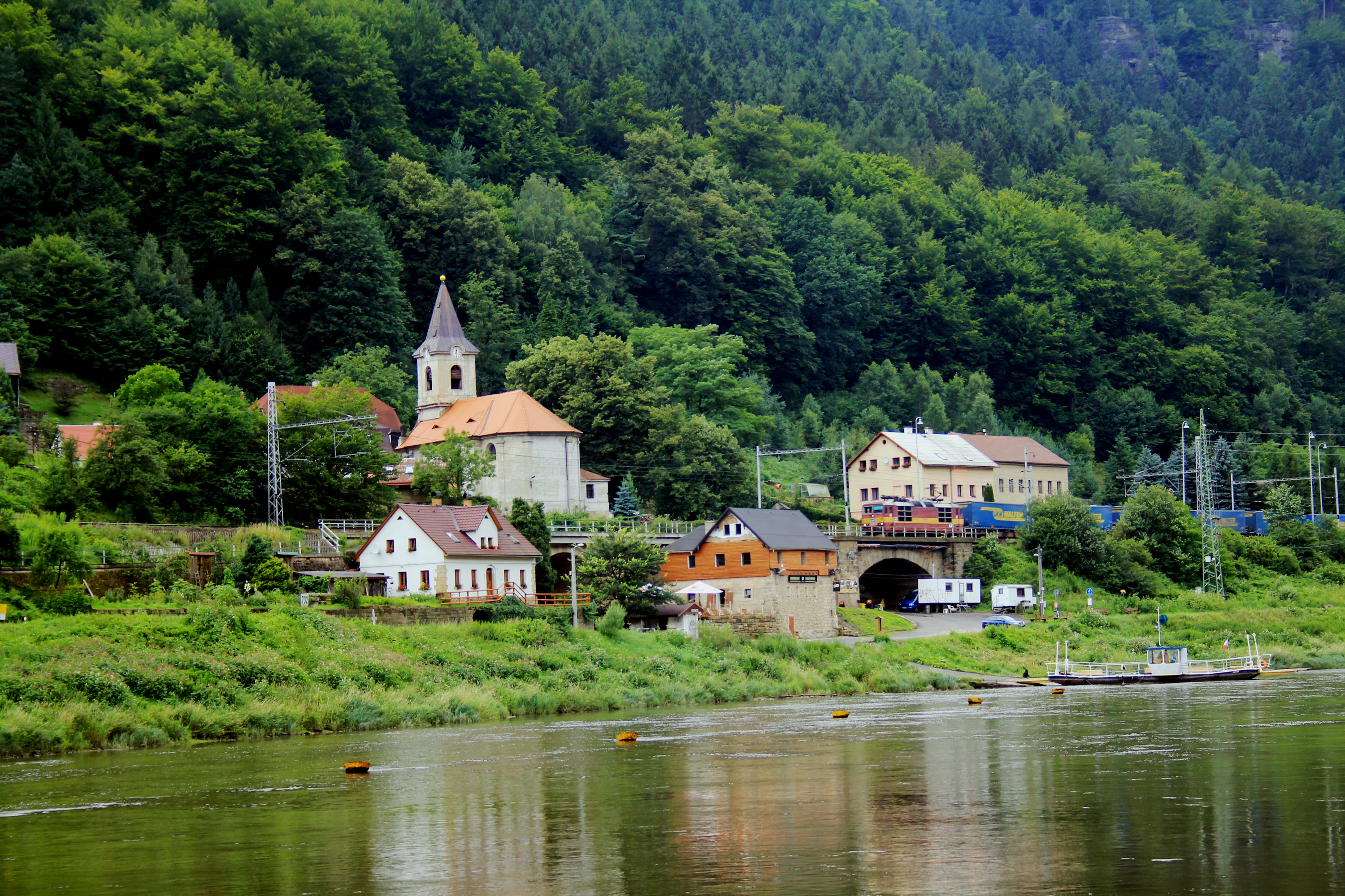 Ferry on the river Elbe in Dolní Žleb, part of Děčín, Czech Republic